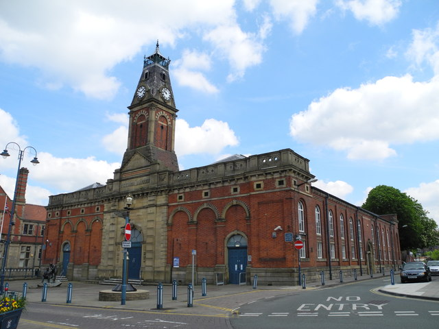 Photograph of Victoria Market, Stalybridge, Greater Manchester, England